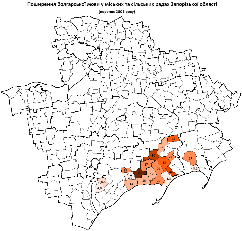 Bulgarian as native language in Zaporizhia oblast of Ukraine according to 2001 census